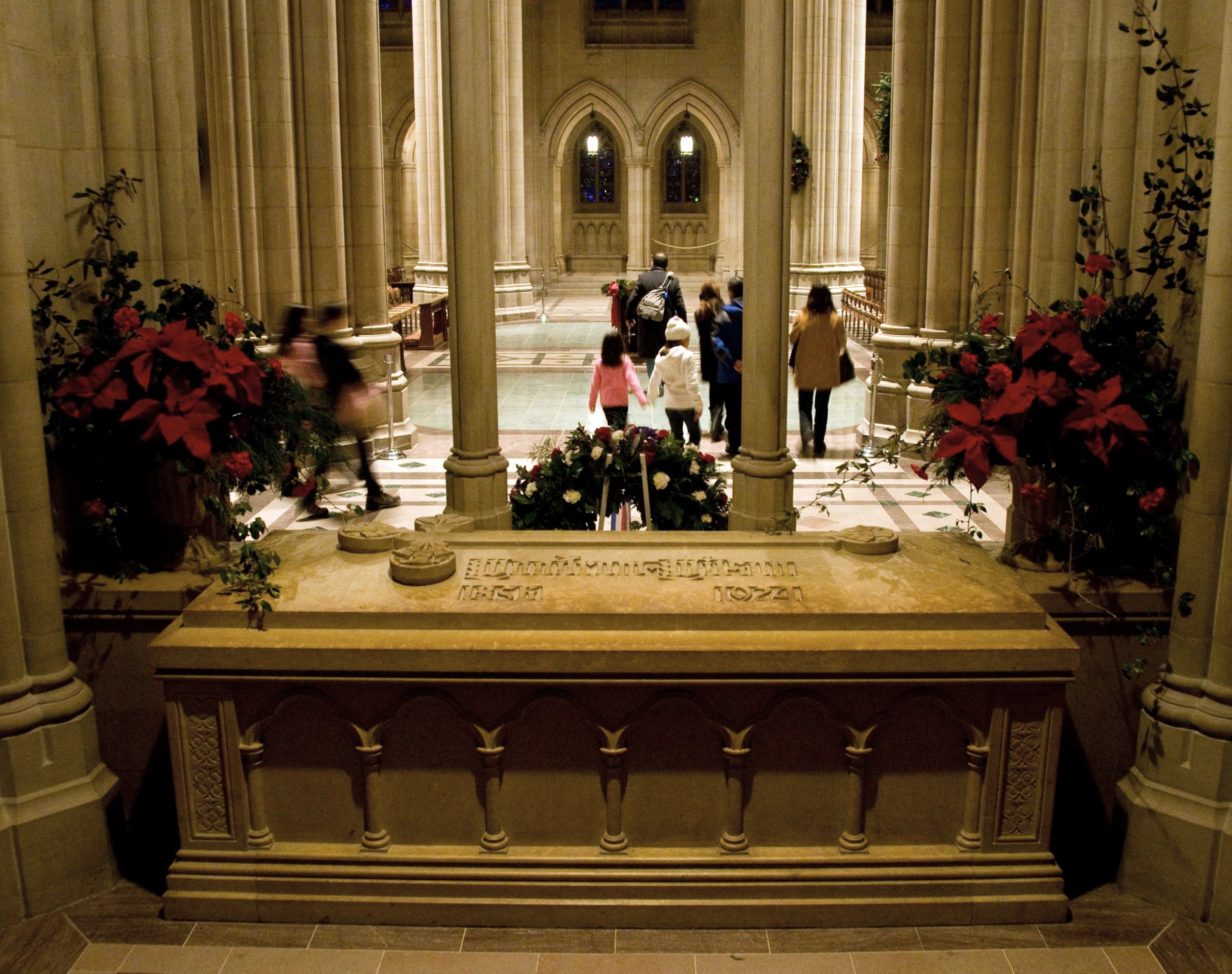 Woodrow Wilson (U.S. President 1913 - 1921) Sarcophagus